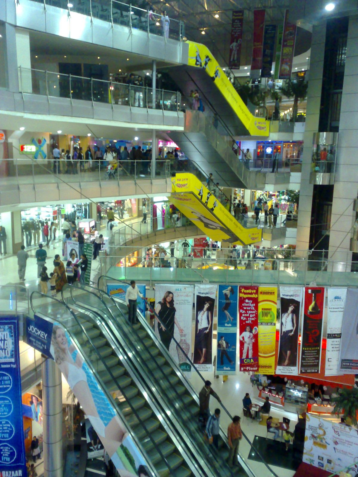 Treasure Island Mall, First in Madhya Pradesh. ಕನ್ನಡ: ಮಧ್ಯಪ್ರದೇಶದಲ್ಲಿ ಮೊದಲ ಟ್ರಿಸರಿ ಐಲ್ಯಾಂಡ್‌ ಮಾಲ್‌.